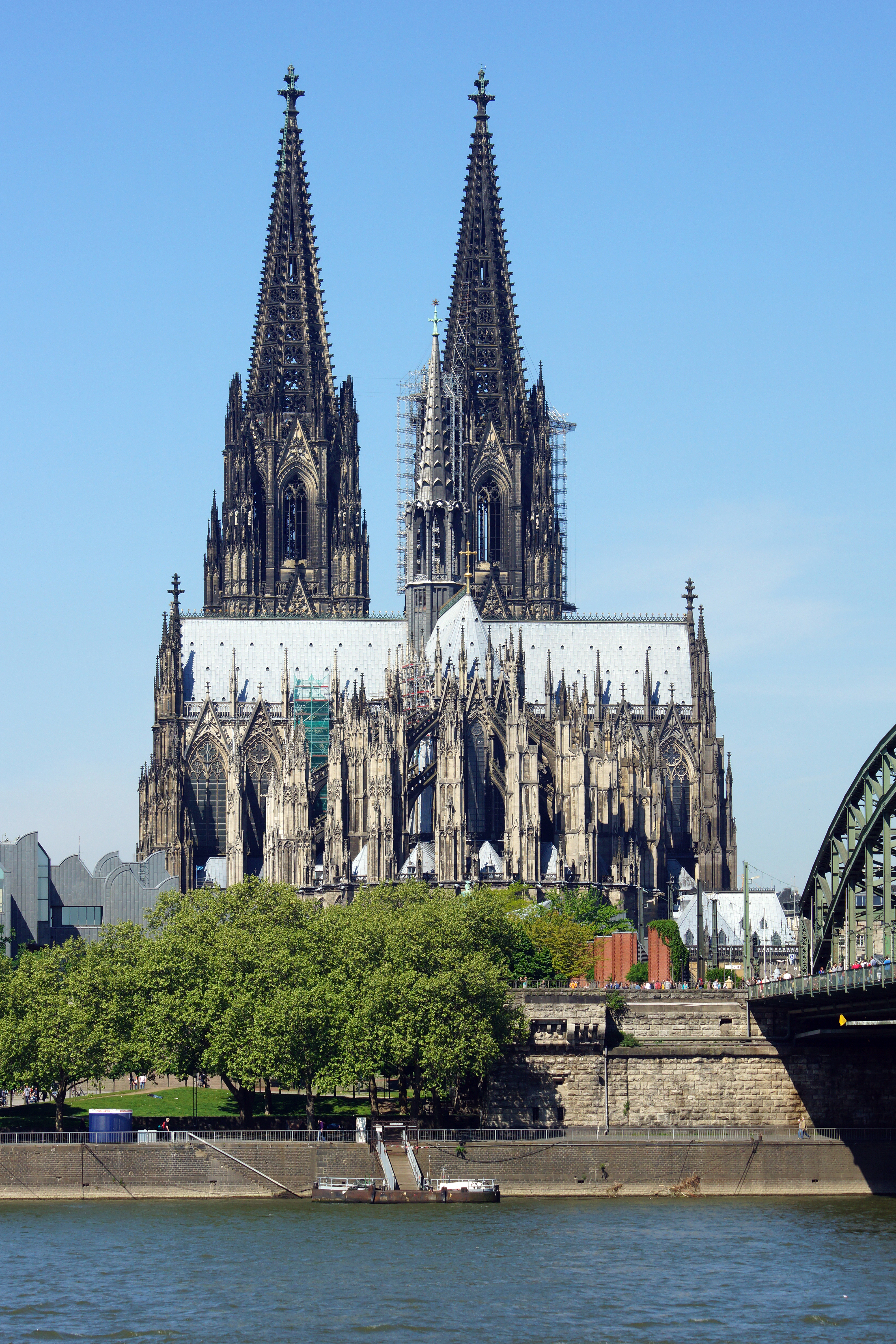 Cologne Cathedral